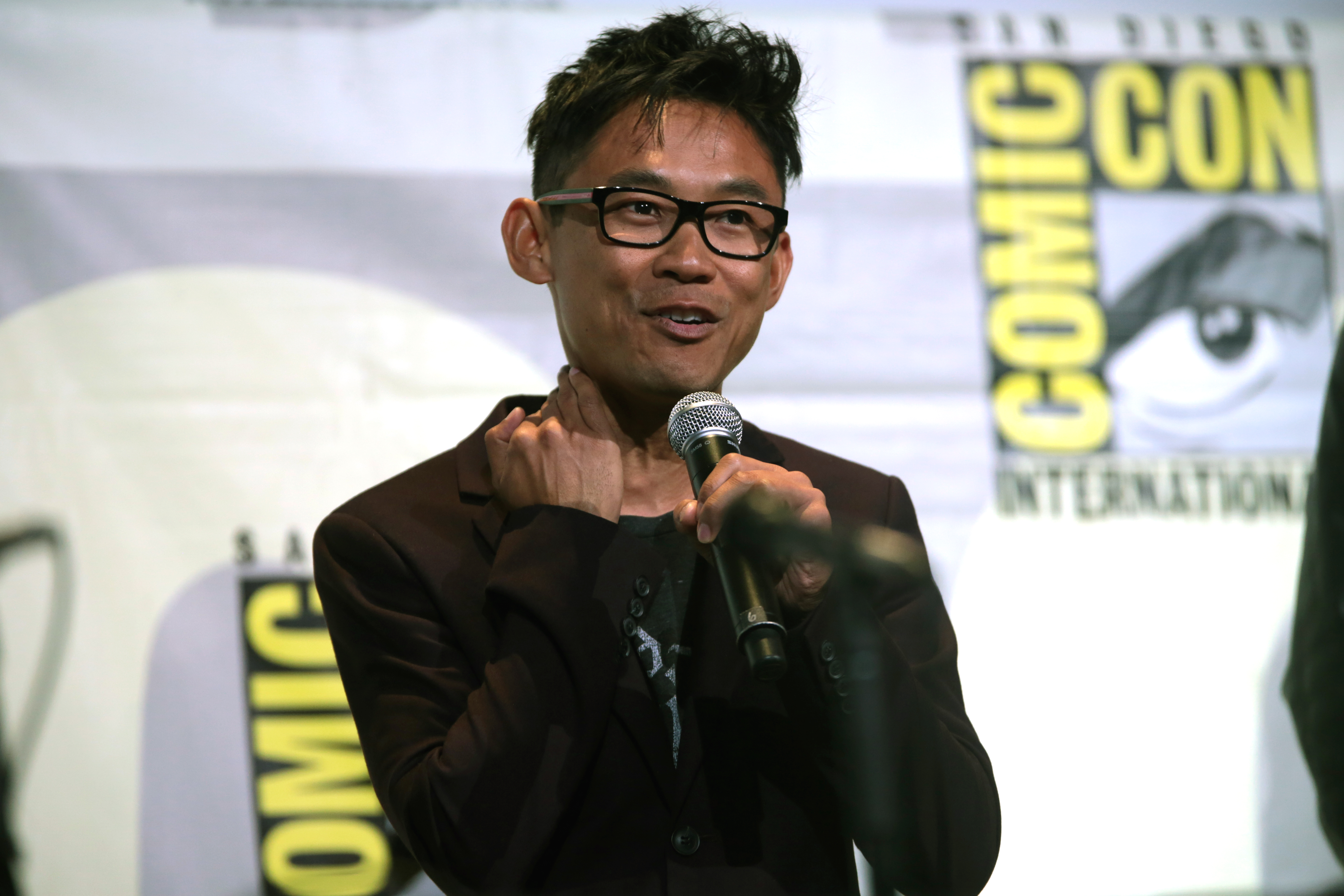 James Wan speaking at the 2016 San Diego Comic Con International, for "Warner Bros. Pictures", at the San Diego Convention Center in San Diego, California.